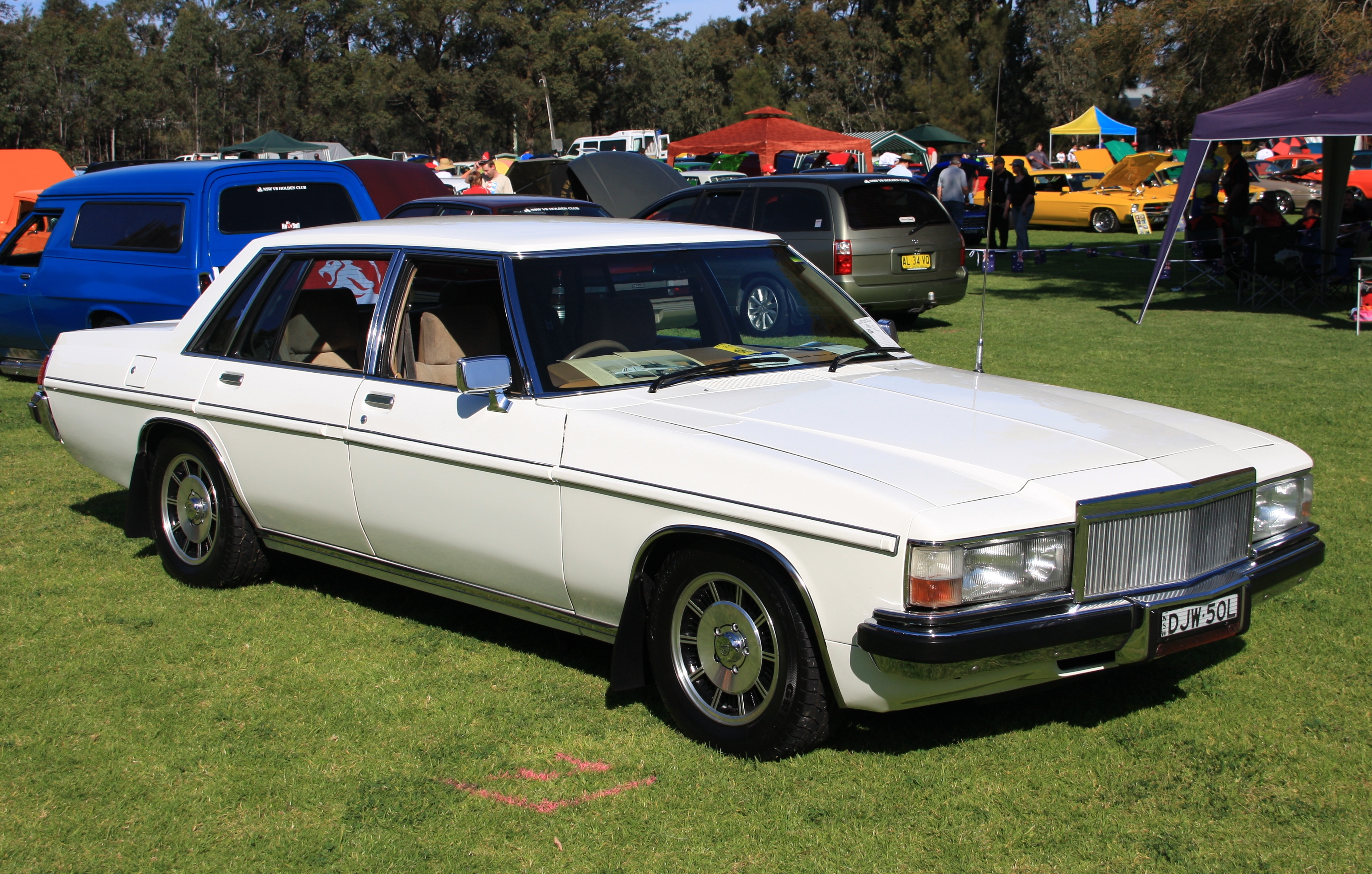 Statesman WB Caprice, photographed in Australia